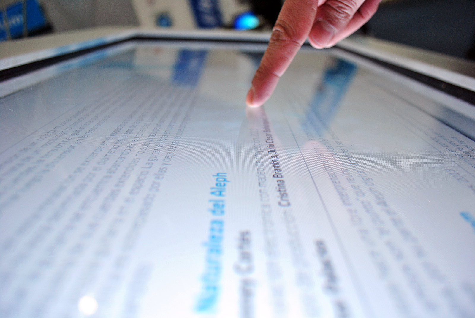 Multi-touch screen in Aldea Digital. Zócalo, Mexico City.